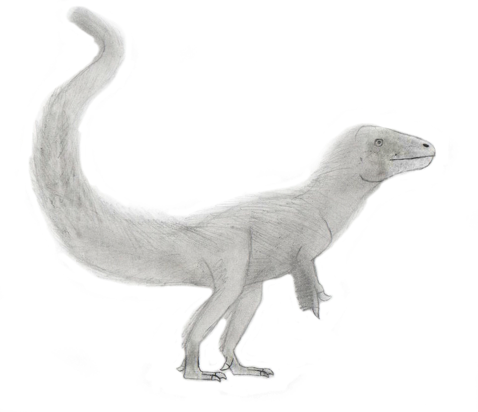 Life restoration of Sciurumimus.